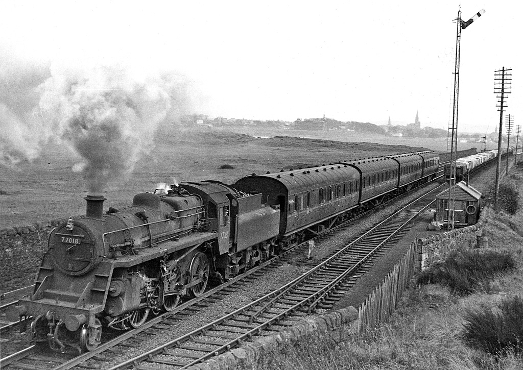 Kilmarnock - Ardrossan local train at Bogside Racecourse. View southward, towards Irvine, Ayr etc., also Kilmarnock; ex-Glasgow & South Western Glasgow - Kilwinning - Irvine - Ayr etc. main line. The train is headed by BR Standard 3MT 2-6-0 No. 77018